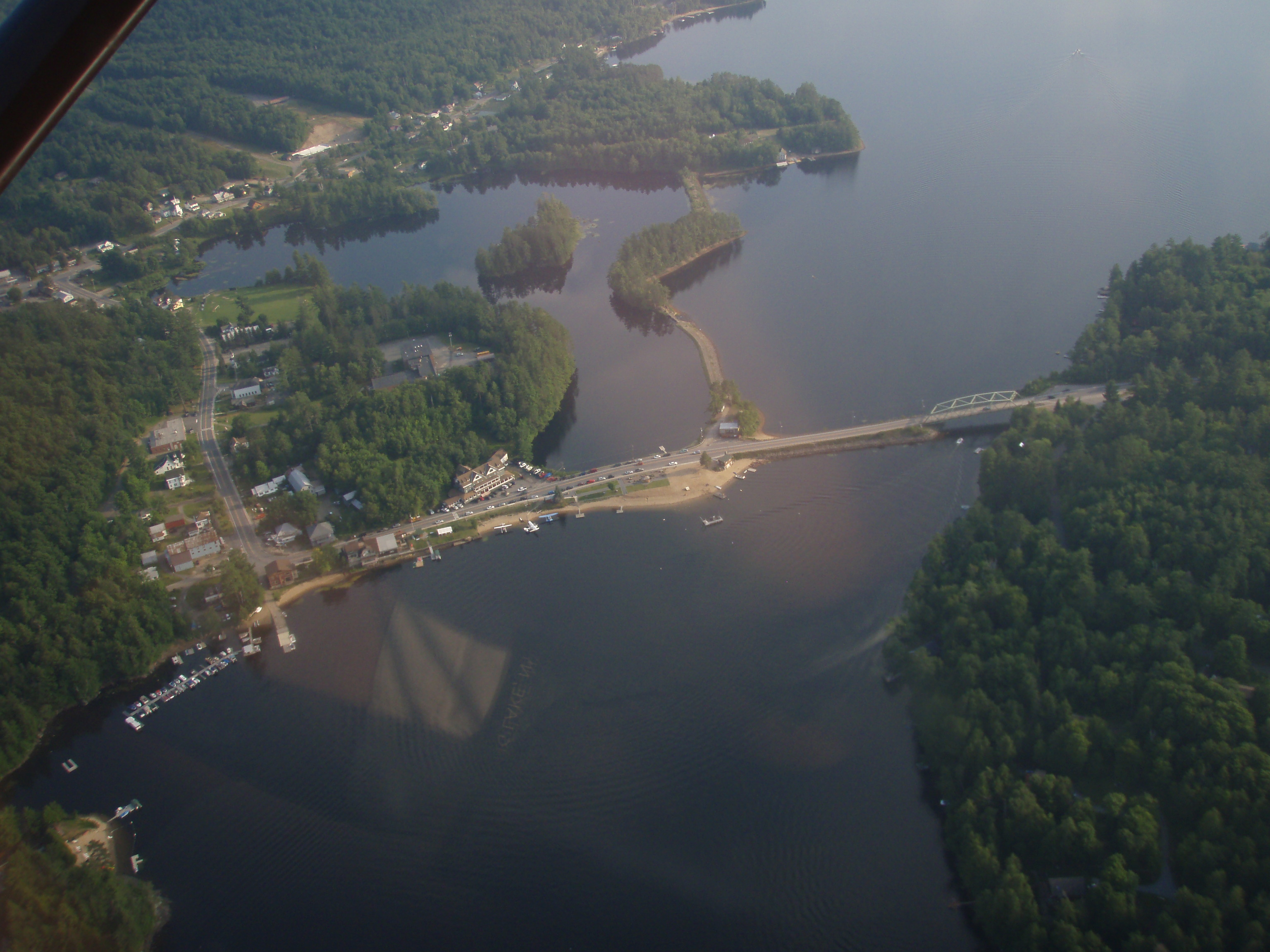 View of the town of Long Lake, New York, from the airplane